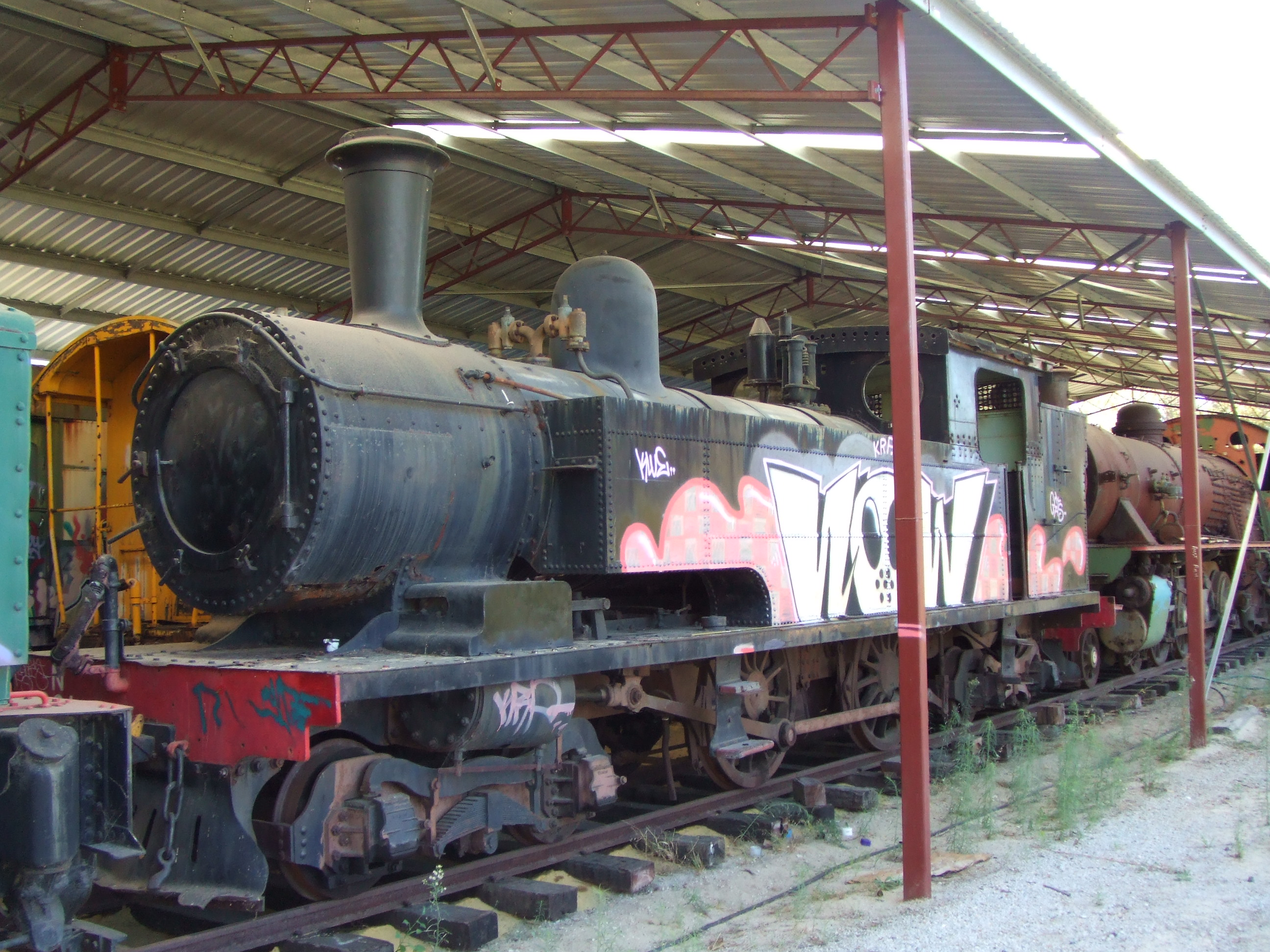 WAGR "N" 4-4-4T No.201 (Robert Stephenson 2886/1898). How at home would this look on the Great Central! 4/06